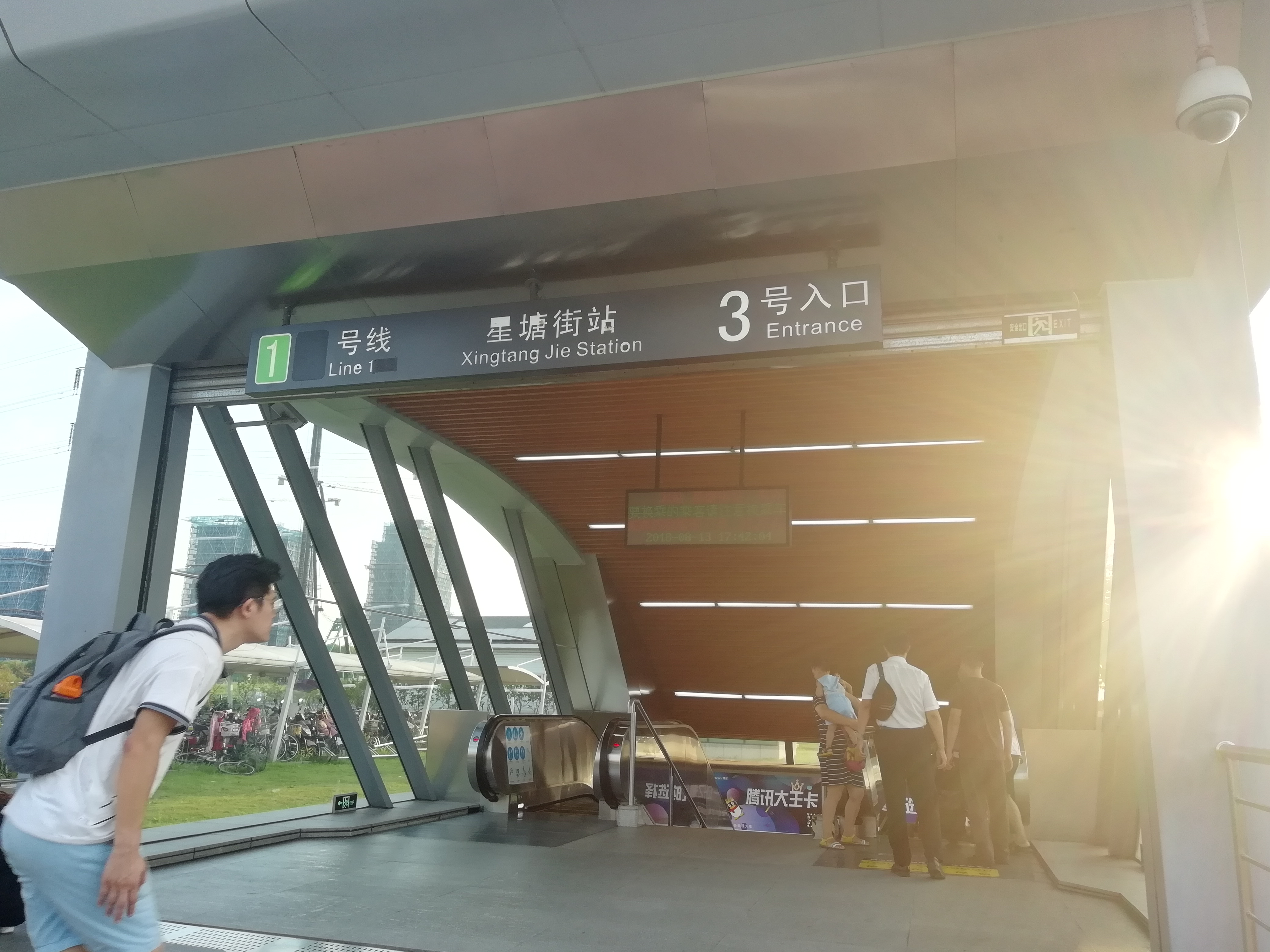 Exit 3 of Xingtang Jie Station of Line 1, Suzhou Rail Transit 中文（中国大陆）: 苏州轨道交通1号线星塘街3号出口